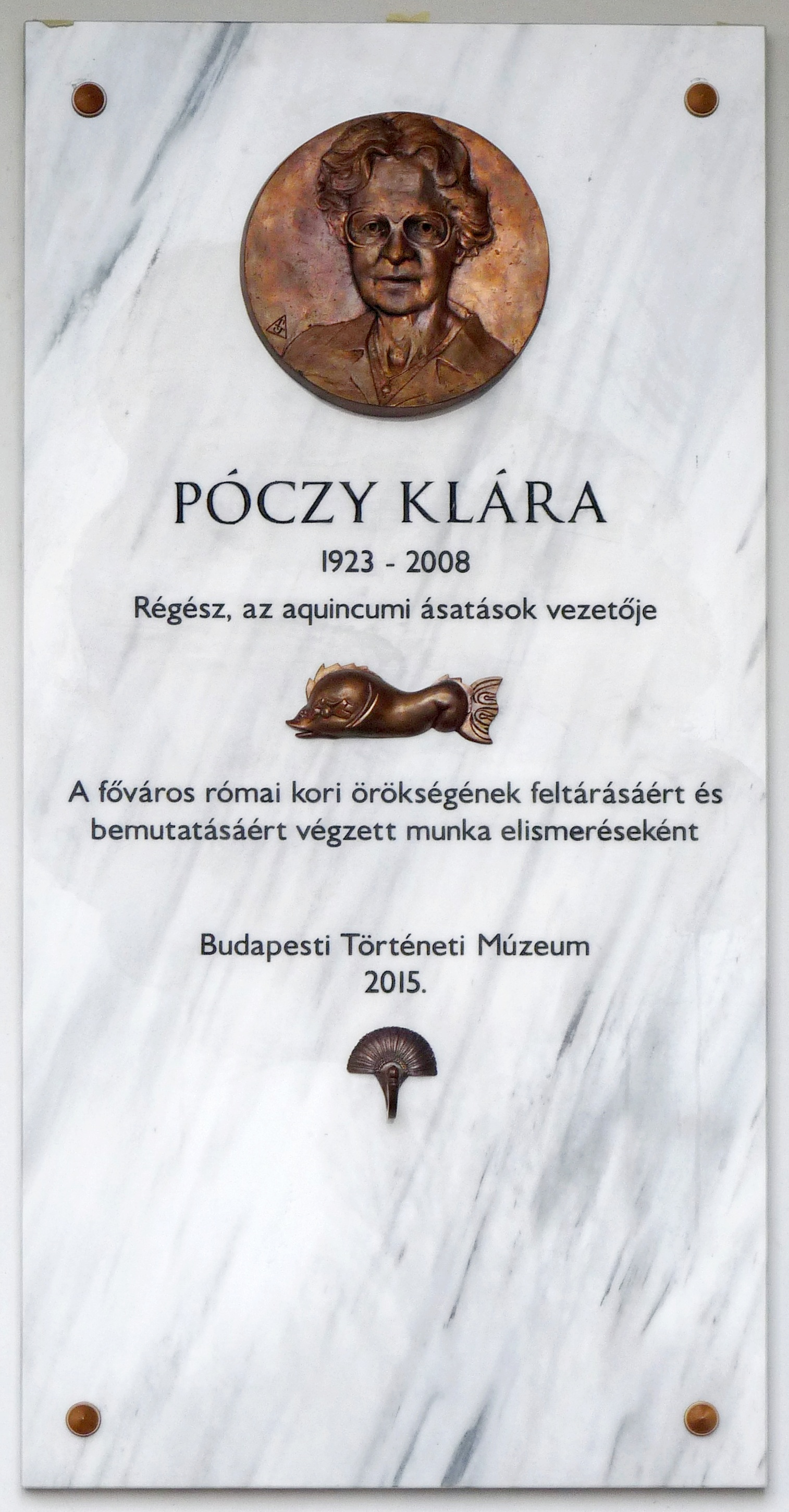 Commemorative plaque to Mrs. Klára Póczy (1923–2008) Hungarian archaeologist, museologist and professor, former Director of the Aquincum Museum. It has been affixed to the wall of the old main building of the museum November 17, 2015. The bronze portrait is sculpted by Mr. Gyula Terebesi, while the bronze dolphin drawn and modeled after the dolphin fountain unearthed in the former proconsul palace in Aquincum is made by Mr. Ádám Vecsey. The Roman-style bronze wreath holder was designed and created by the goldsmith and and restorer artist Mr. Balázs Lukács. (Budapest, District III, Szentendrei Avenue Nr 135-139)